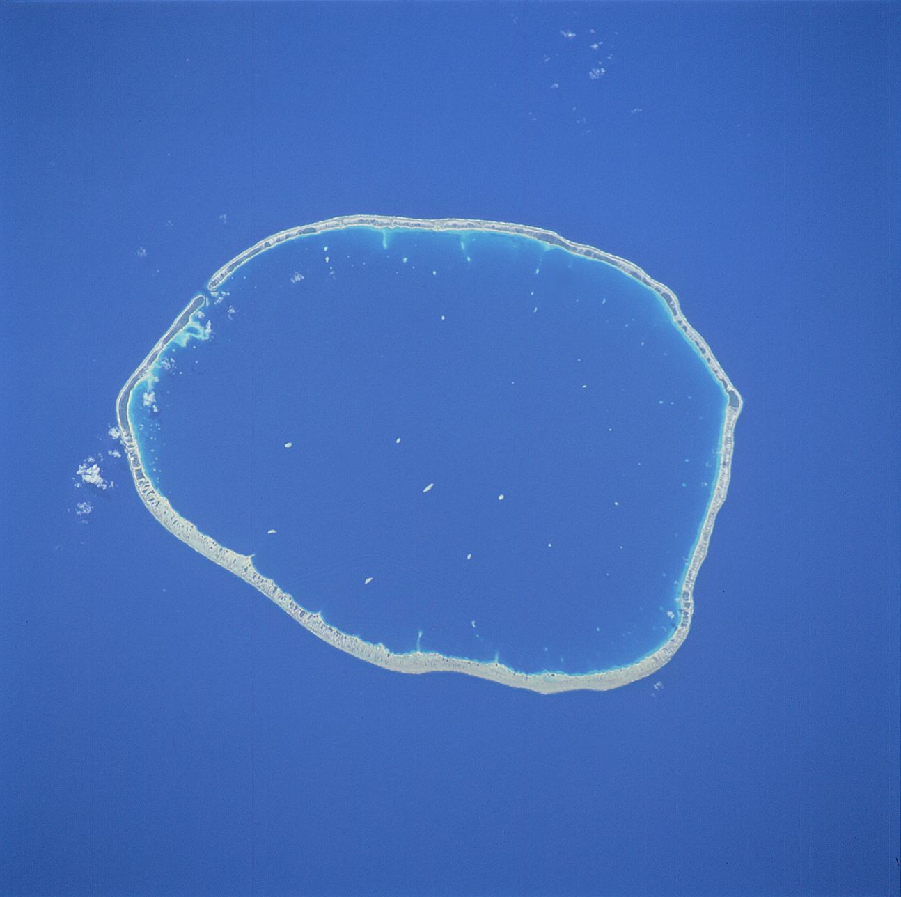 Atoll Raraka (Tuamotu Archipelago, French Polynesia), from space.